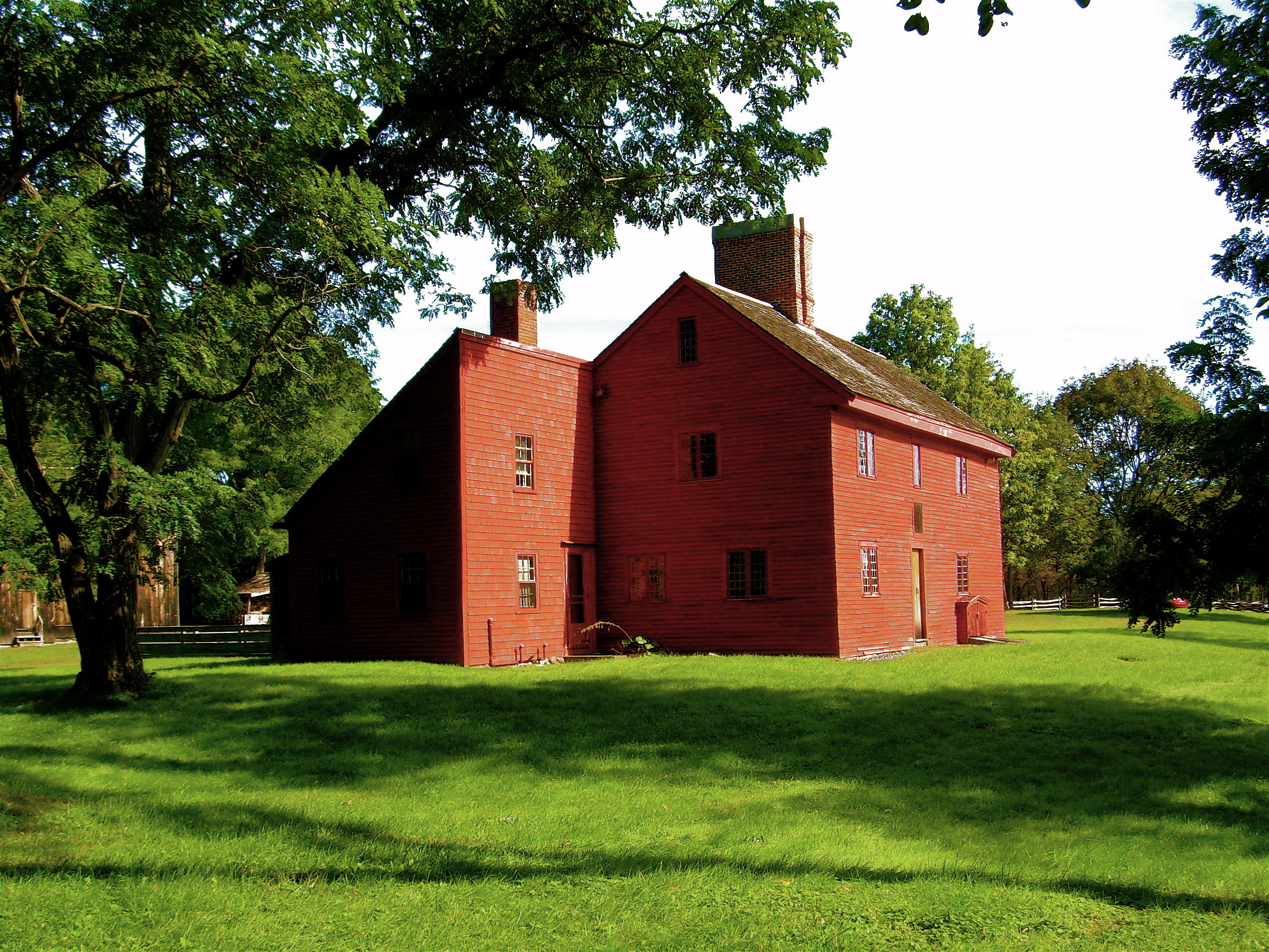 Depicted place: Rebecca Nurse Homestead